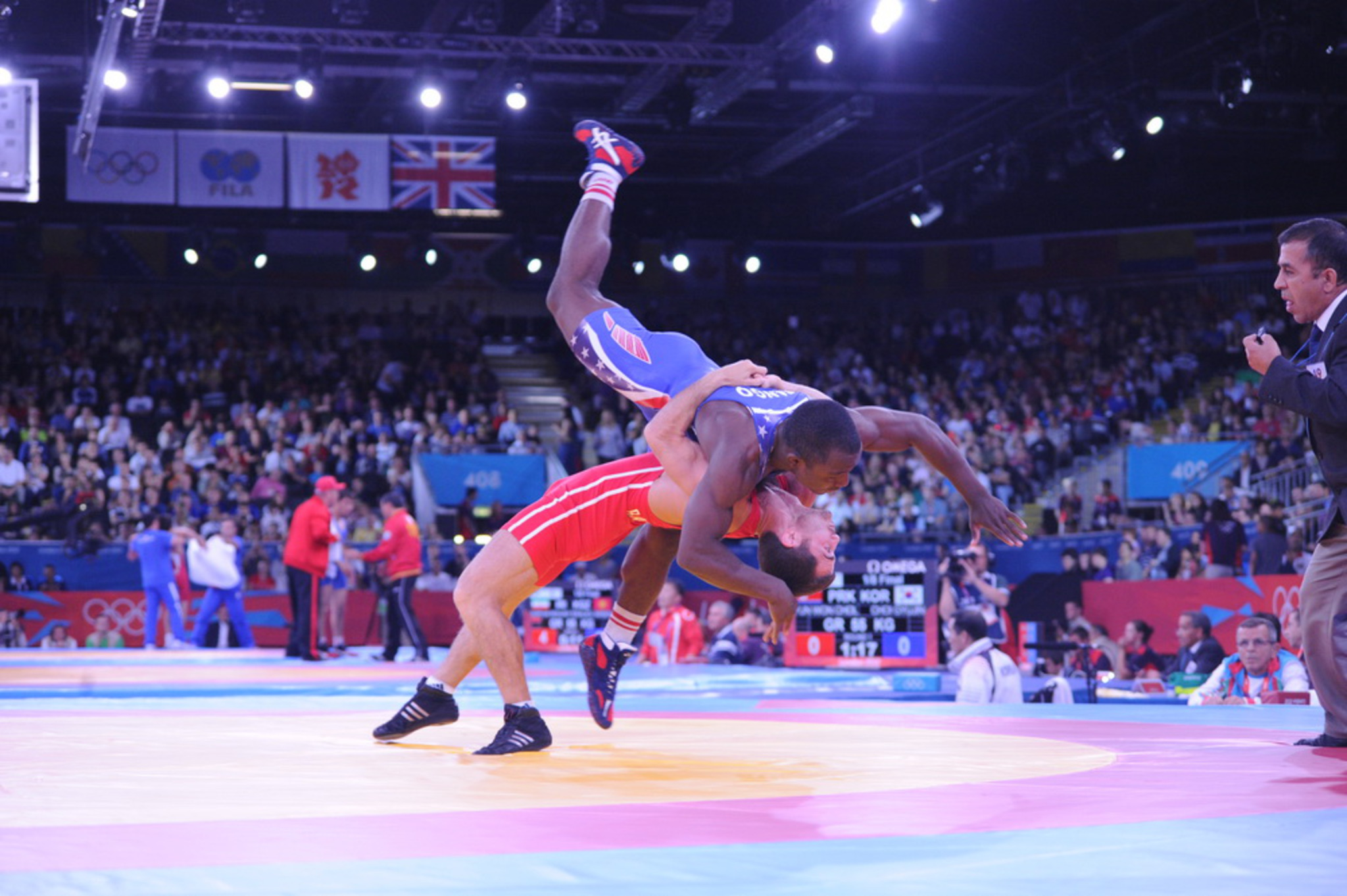 Rovshan Bayramov. Greco-Roman wrestling competition of the London 2012 Games